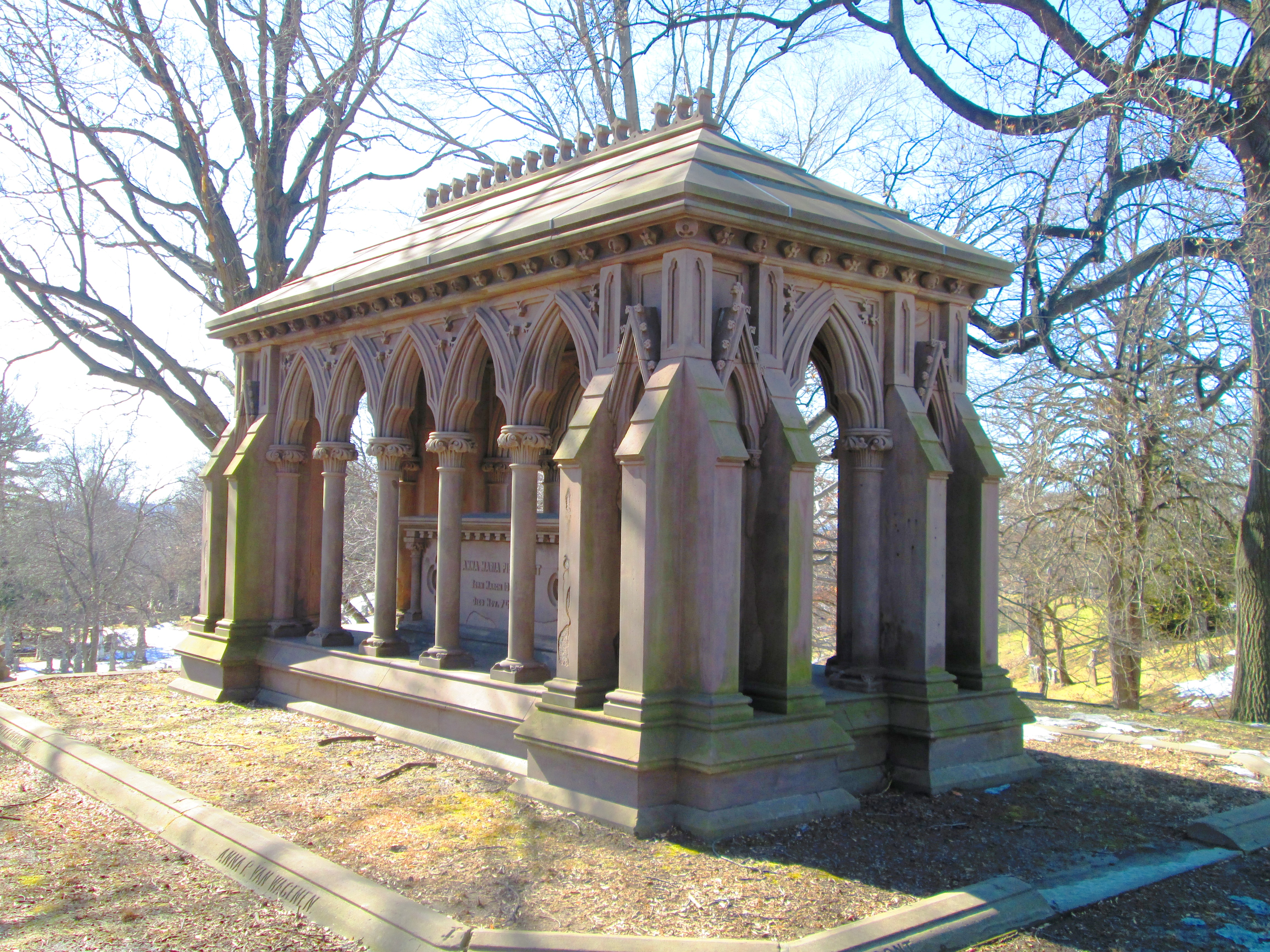 The Memorial for Hezekiah Beers Pierrepont, the founder of Brooklyn Heights, and his family, was built c.1840s and was designed by Richard Upjohn. Pierrepont, who died in 1838, was th father of Henry Pierrepont, one of the founders of Green-Wood Cemetery. The brownstone memorial is located on one of the few man-made hillocks there. It was restored c.2010. (Source: [1])